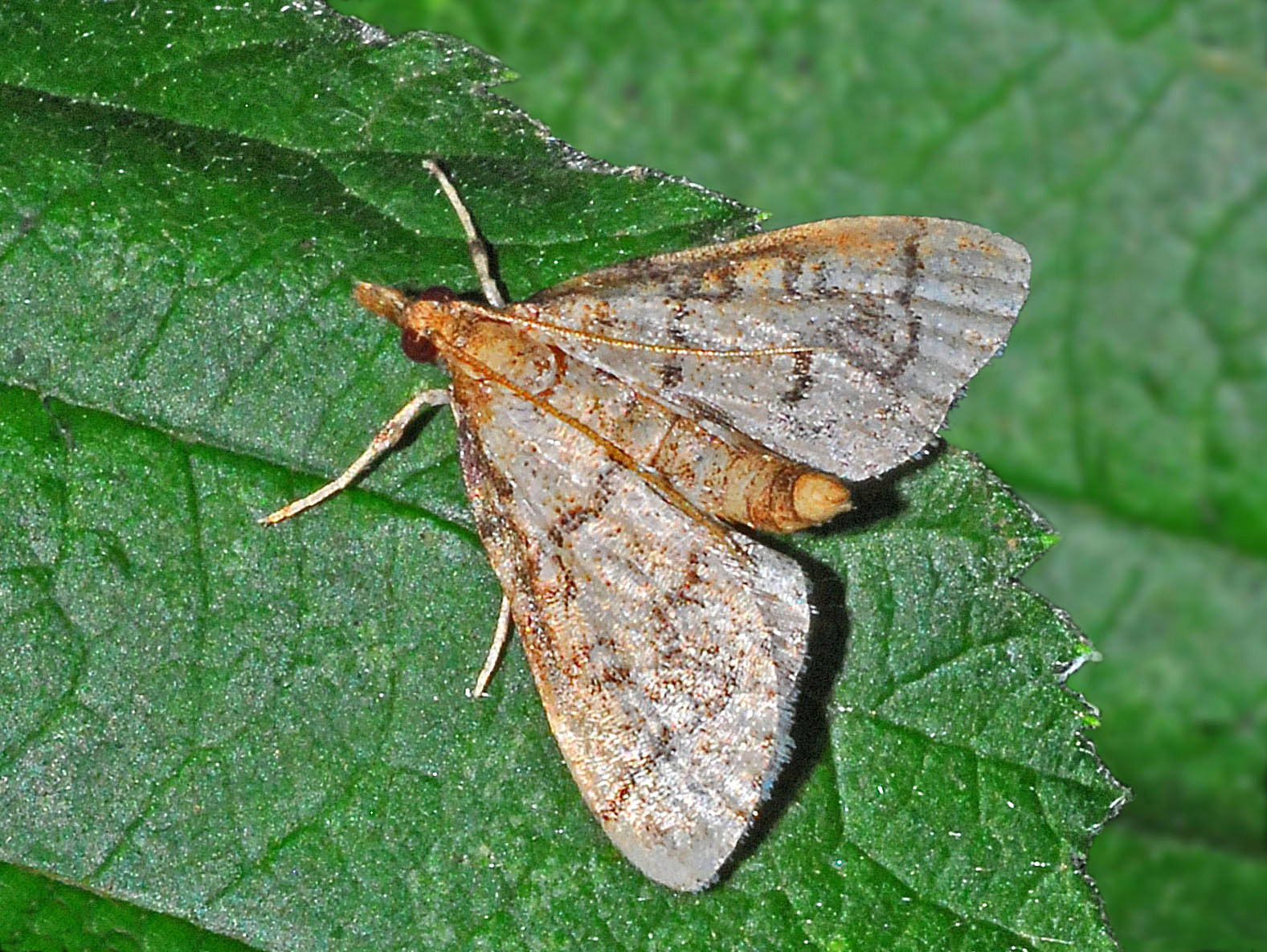 Metasia ophialis. Alessandria, Italy